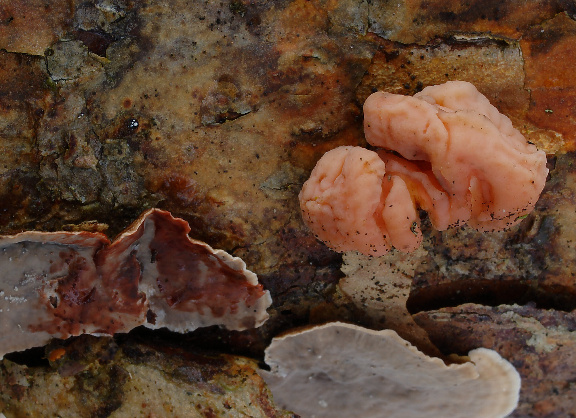 Tremella encephala on Stereum sanguinolentum on Pinus sylvestris